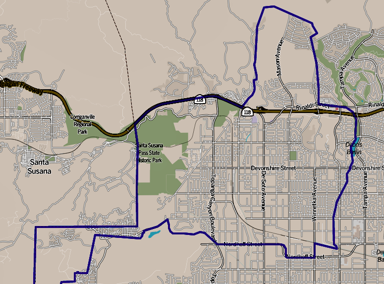 Map of Chatsworth, California, as delineated by the Los Angeles Times Other information Boundary map as drawn by the Los Angeles Times on a CC-by-SA background. Note at bottom right of map on the L.A. Times website noted above says "CC-by-SA" (which gives permission to use the map). There is a link there to which explains the meaning thereof. The base map is credited to The Times spells all this out at